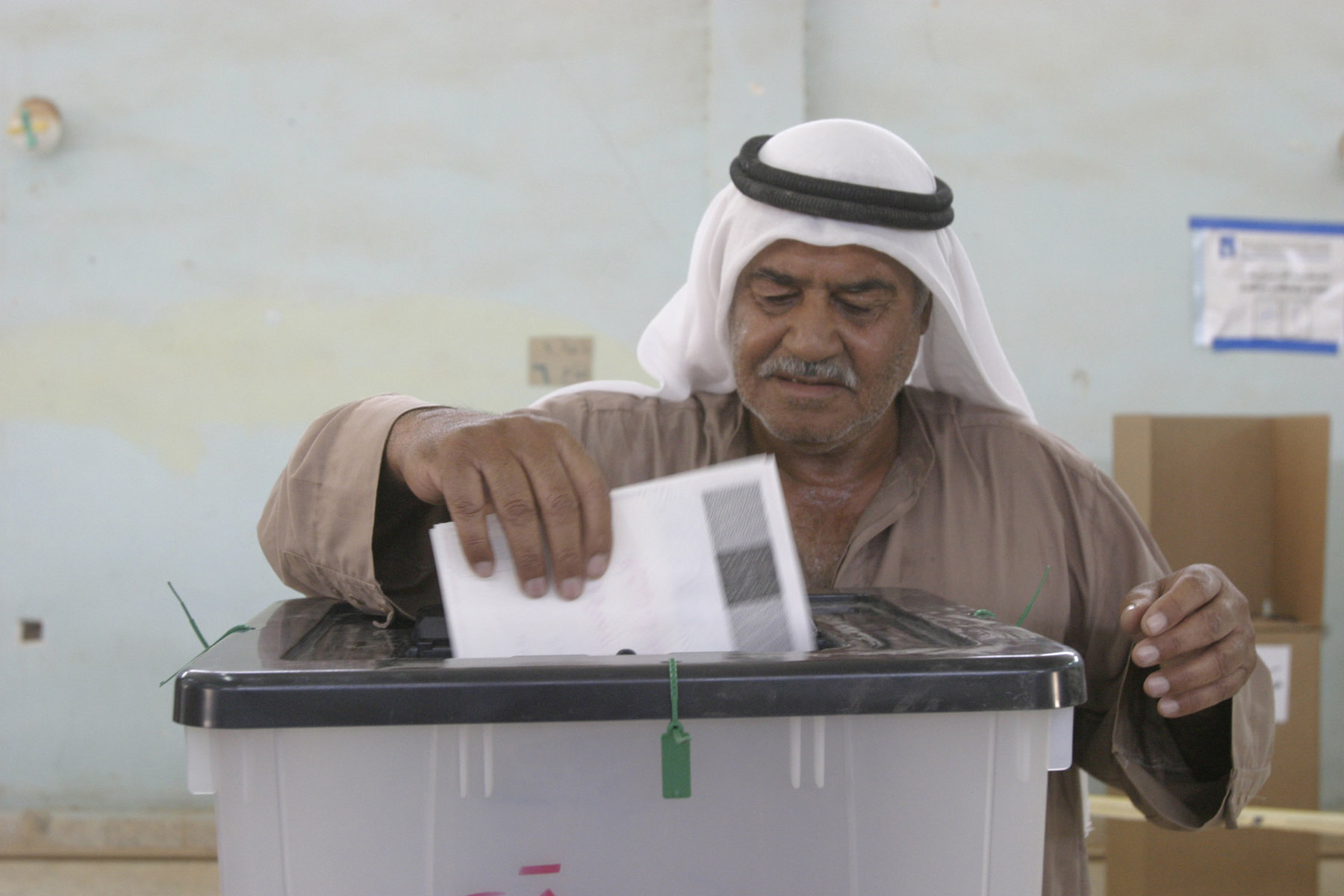 Barwana, Iraq (Oct. 15, 2005) - An Iraqi national drops his voting ballet for the election for the new Iraqi constitution into a ballet box at a polling station in Barwana, Iraq. The Marines assigned to 2d Marine Division is deployed to conduct counter-insurgency operations to isolate and neutralize anti-Iraqi forces; support the continued development of Iraqi Security Force; support Iraqi reconstruction and democratic elections; and to facilitate the creation of a secure environment that enables Iraqi self-reliance and self-governance. U.S. Marine Corps photo by Lance Cpl. Shane S. Keller (RELEASED)